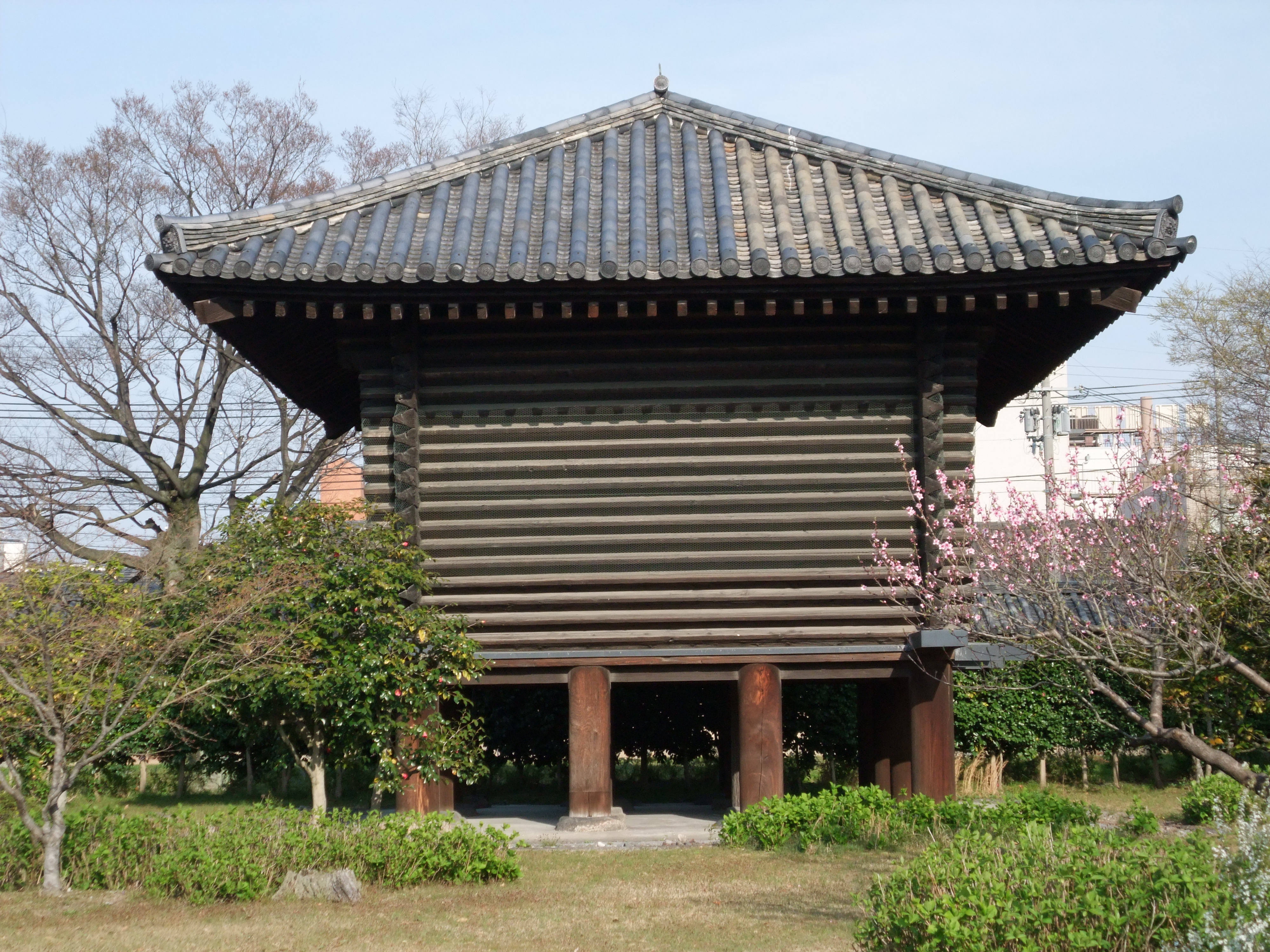 Hō-zō(Japan's national important cultual property), Tō-ji